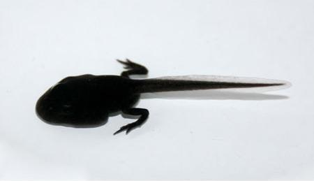 Series of pictures of tadpoles (common toad - Bufo bufo). The pictures show the last two weeks of larva development ending with metamorphosis. They have been taken in the second half of May in southern Germany near Regensburg.